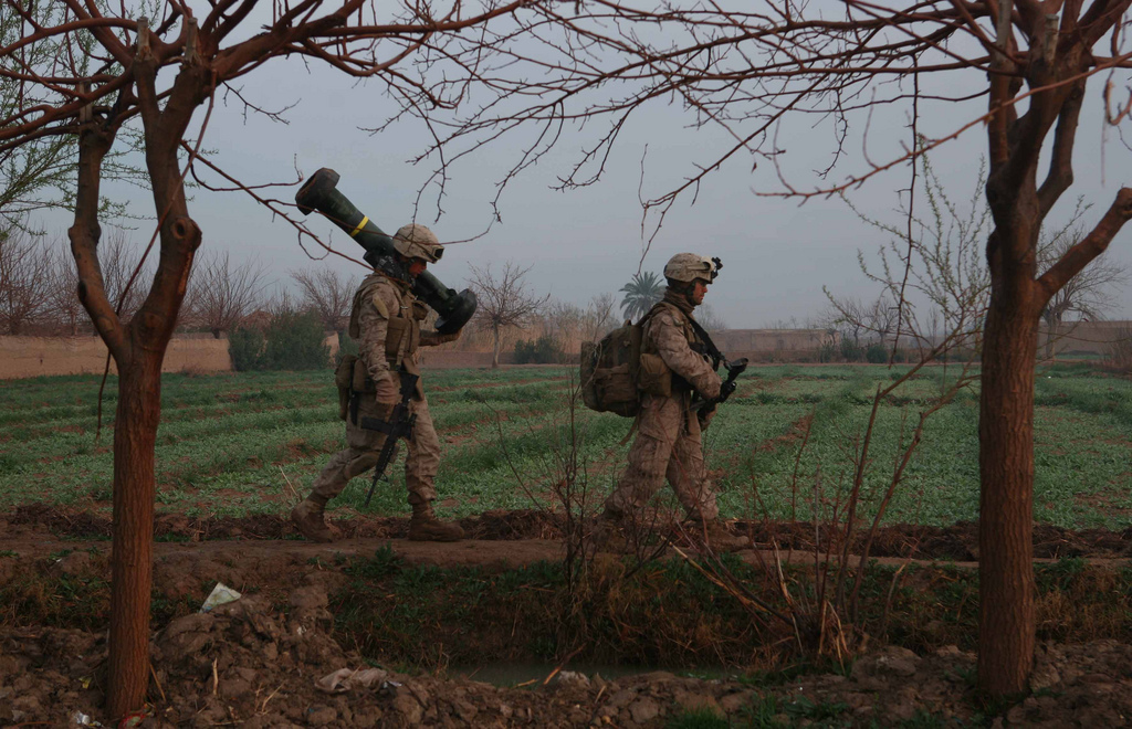 U.S. Marines with Bravo Company, 1st Battalion, 6th Marine Regiment patrol the fields in Marjeh, Afghanistan on Feb. 22, 2010. Marines are securing the city of Marjeh from the Taliban.